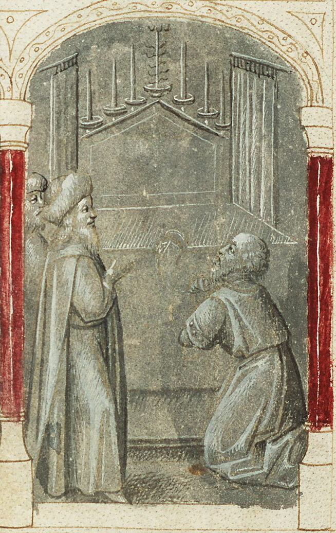 Aaron's Rod Has Sprouted, by Hesdin of Amiens, illumination from a "Biblia Pauperum" (Bible of the Poor) (manuscript "Den Haag, MMW, 10 A 15") at the Museum Meermanno Westreenianum, The Hague